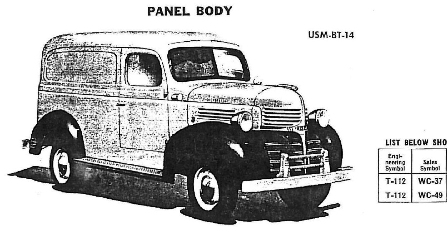 Dodge WC-37 / WC-49 Panel Body (engineering code T-112; body type code USM-BT-14) — NOTE: Carried over body from previous Dodge VC-6 (code T-202), but paneled-up rear side windows.